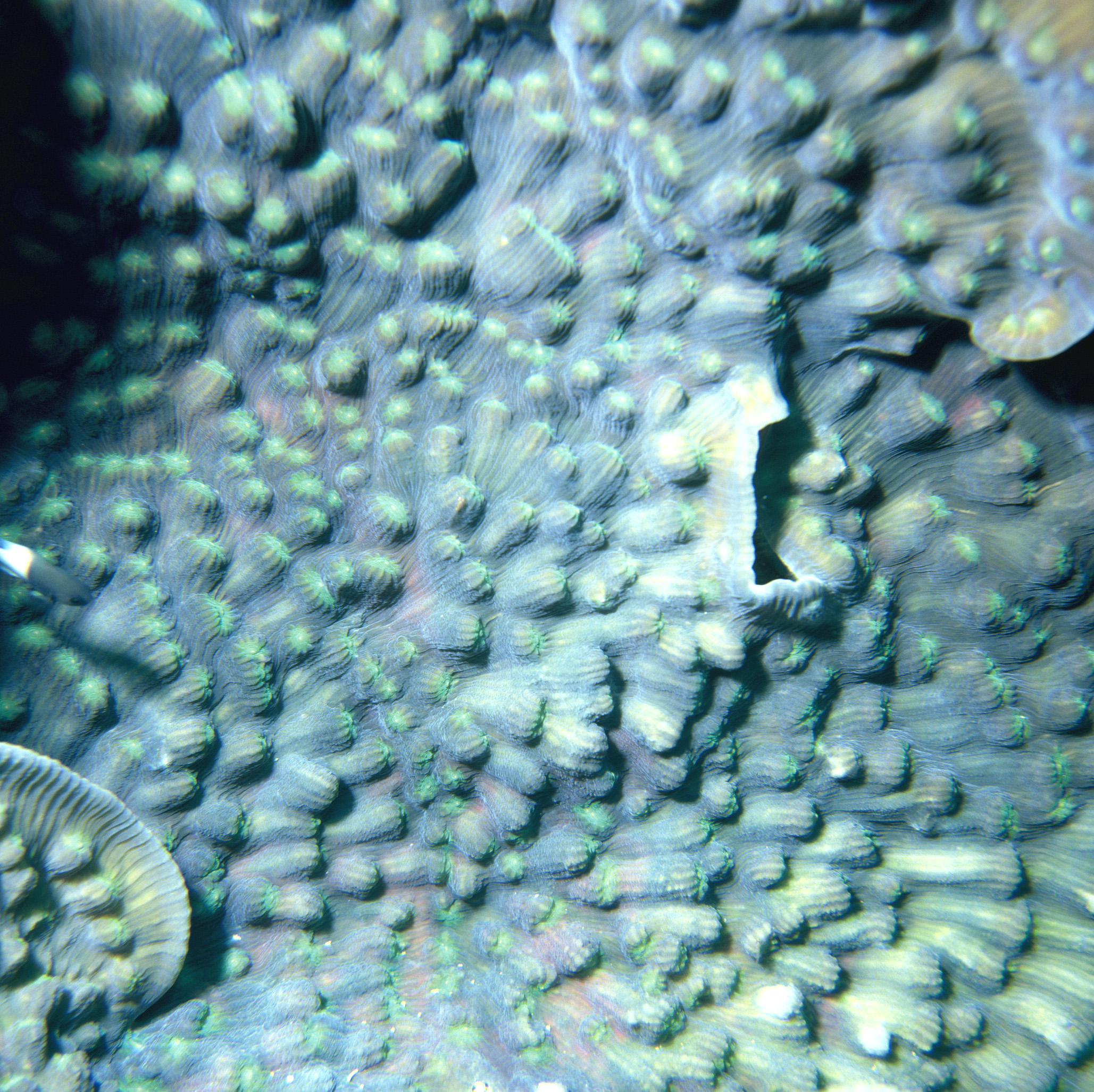 Echinophyllia sp.